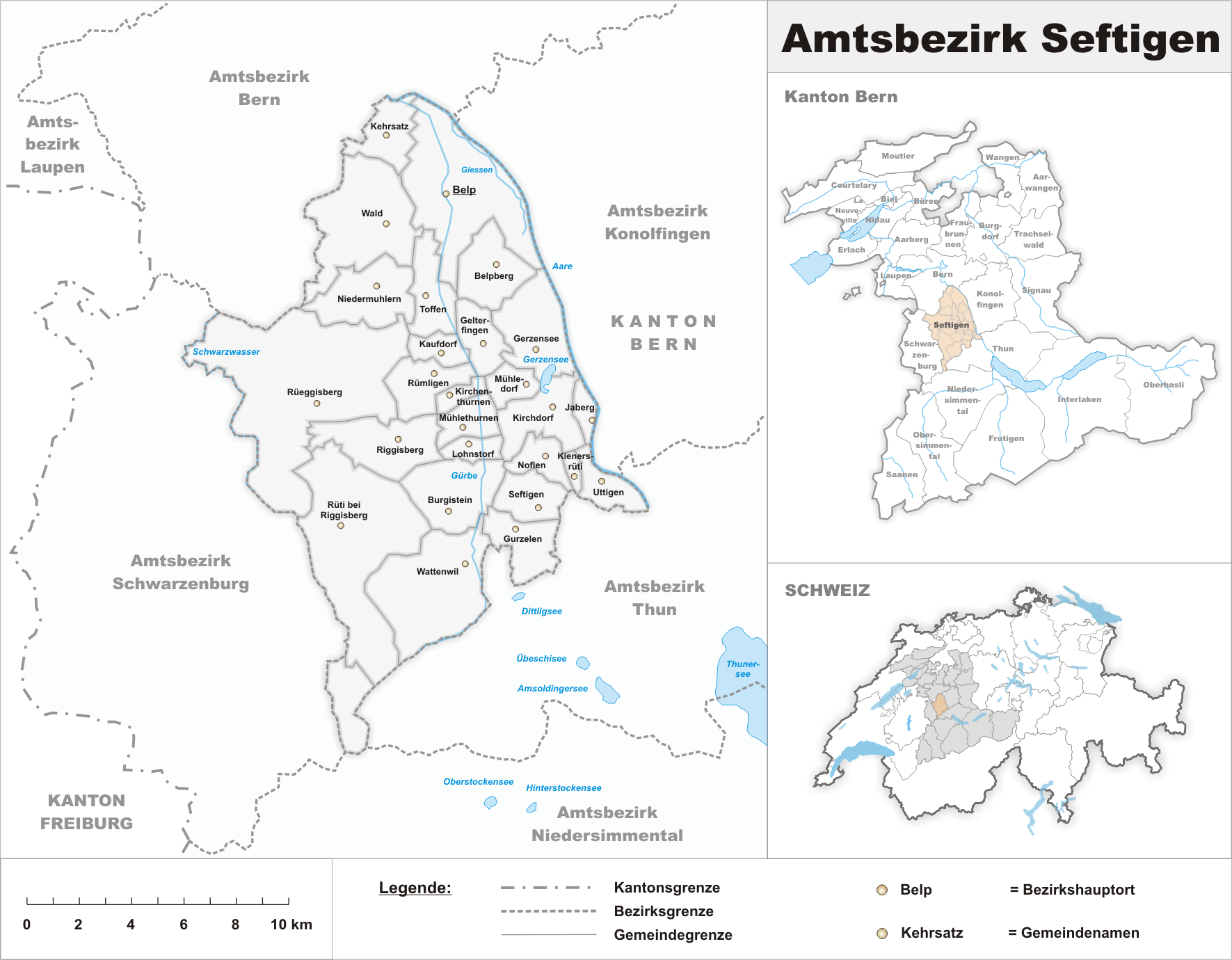 Municipalities in the district of Seftigen to 2008